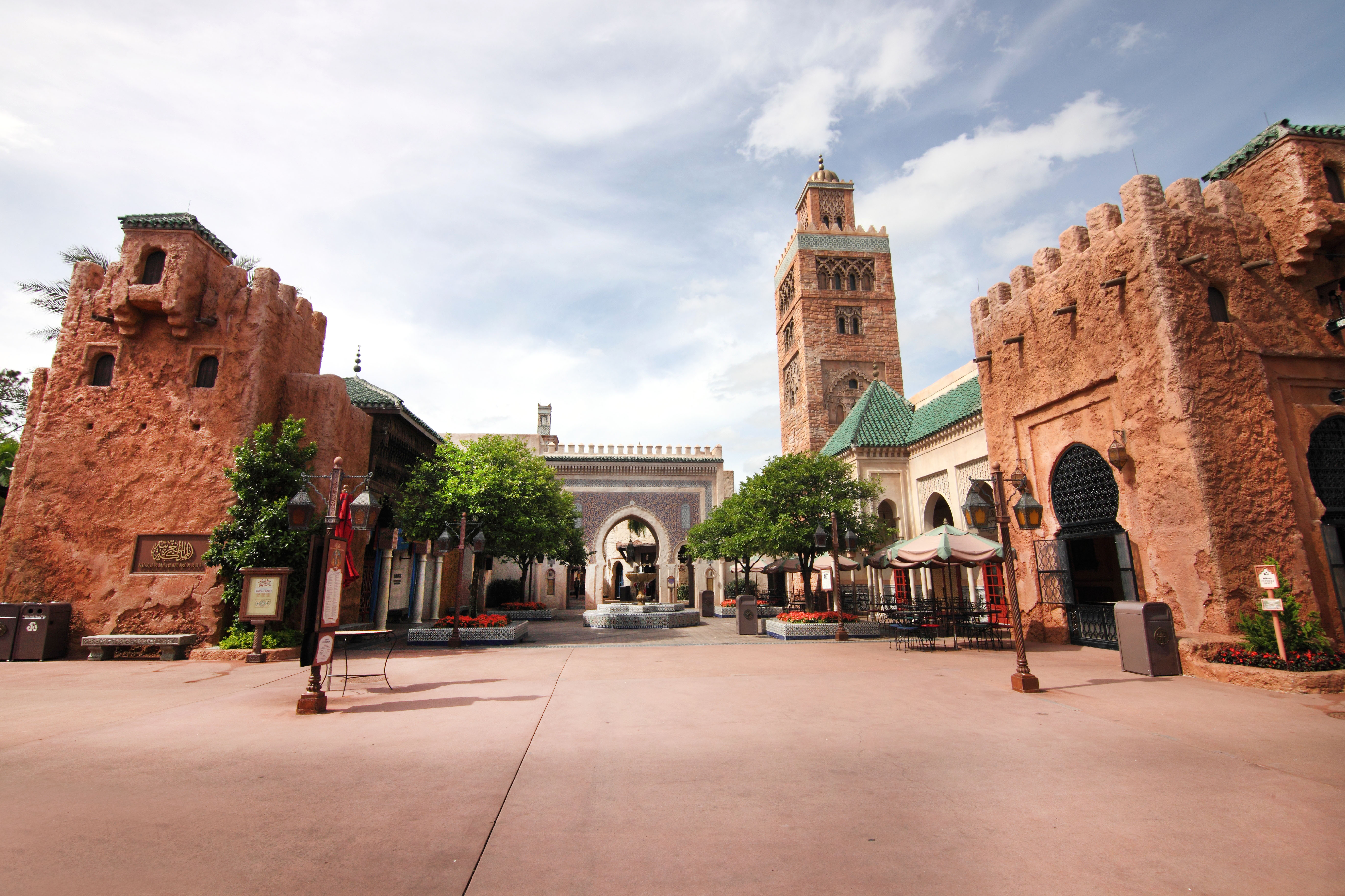 Morocco Pavilion in World Showcase at EPCOT Center.